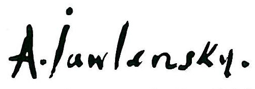 autograph of the painter Jawlensky